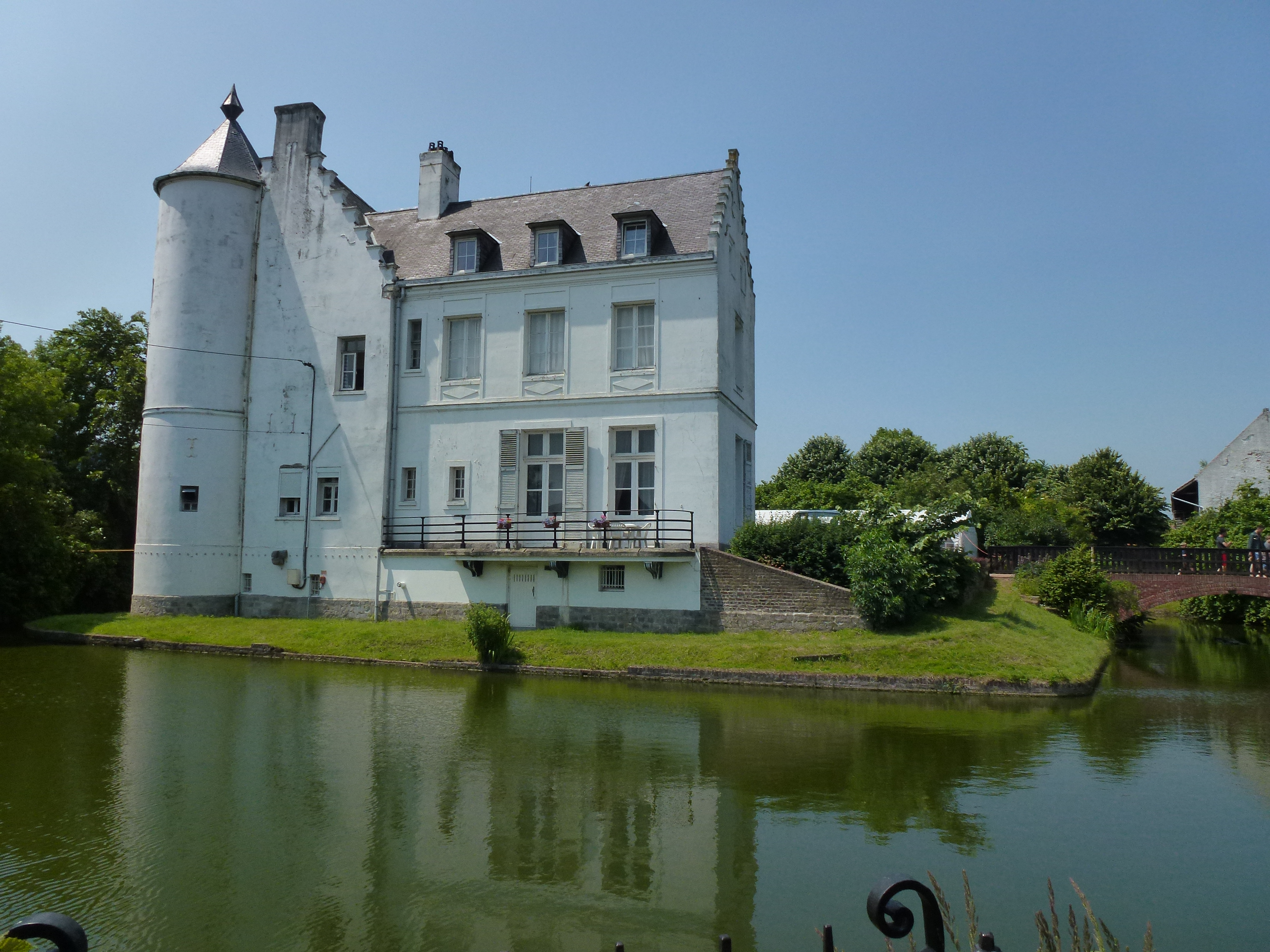 Thumeries (Nord, Fr) le château blanc